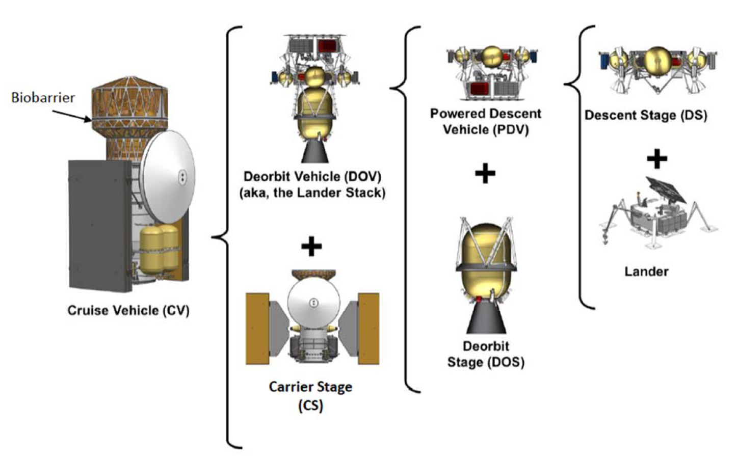 Europa Lander spacecraft : Flight-System-Configurations